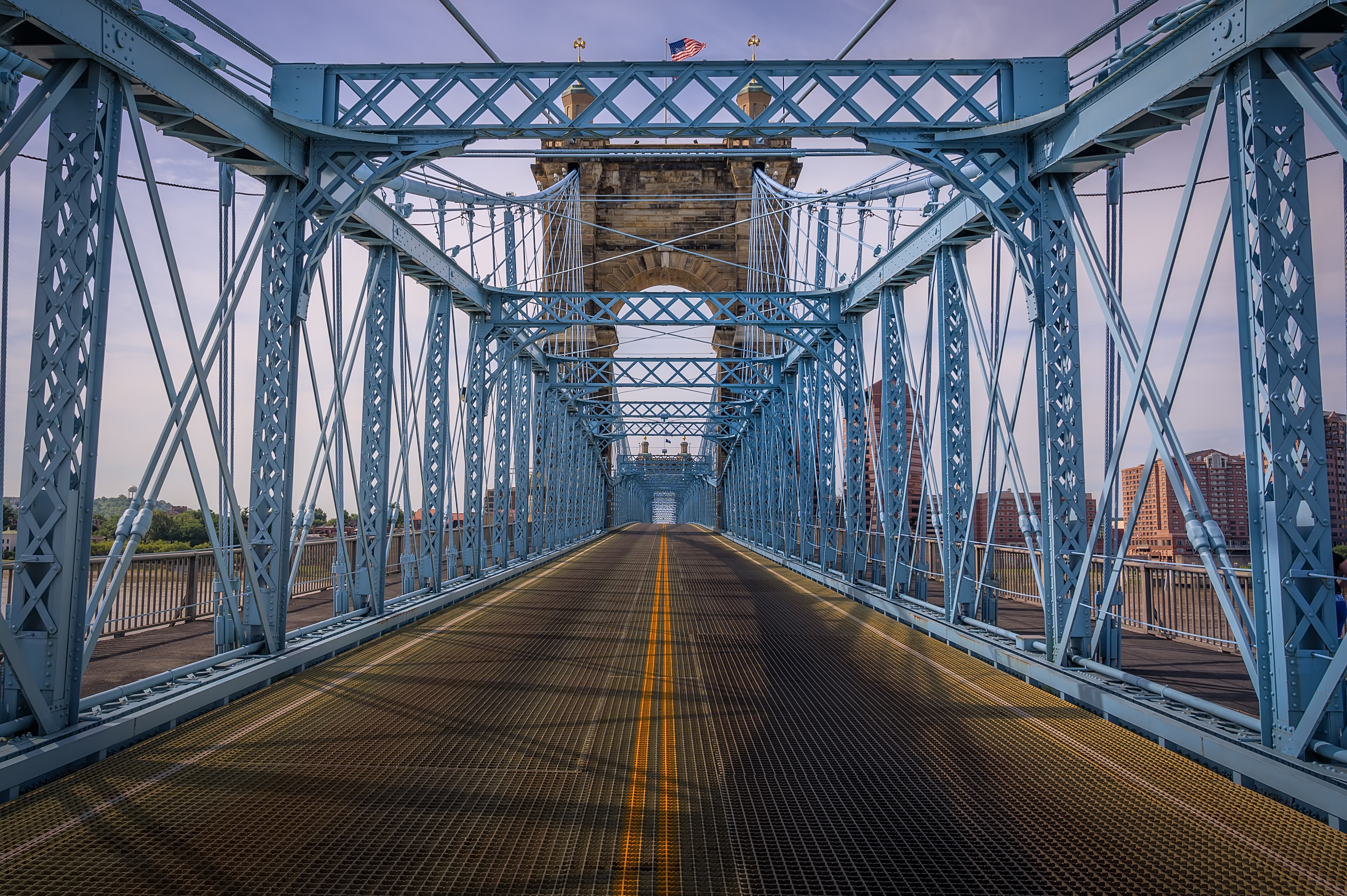 The John A. Roebling Suspension Bridge, originally known as the Cincinnati-Covington Bridge spans the Ohio River between Cincinnati, Ohio and Covington, Kentucky. When opened on December 1, 1866, it was the longest suspension bridge in the world at 1,057 feet (322 m) main span[3], which was later overtaken by John A. Roebling's most famous design of the 1883 Brooklyn Bridge at 1,595.5 feet (486.3 m). Pedestrians use the bridge to get between the sports venues in Cincinnati (Paul Brown Stadium, Great American Ball Park, and U.S. Bank Arena) and the hotels, bars, restaurants, and parking lots in Northern Kentucky. The bar and restaurant district at the foot of the bridge on the Kentucky side is known as Roebling Point.